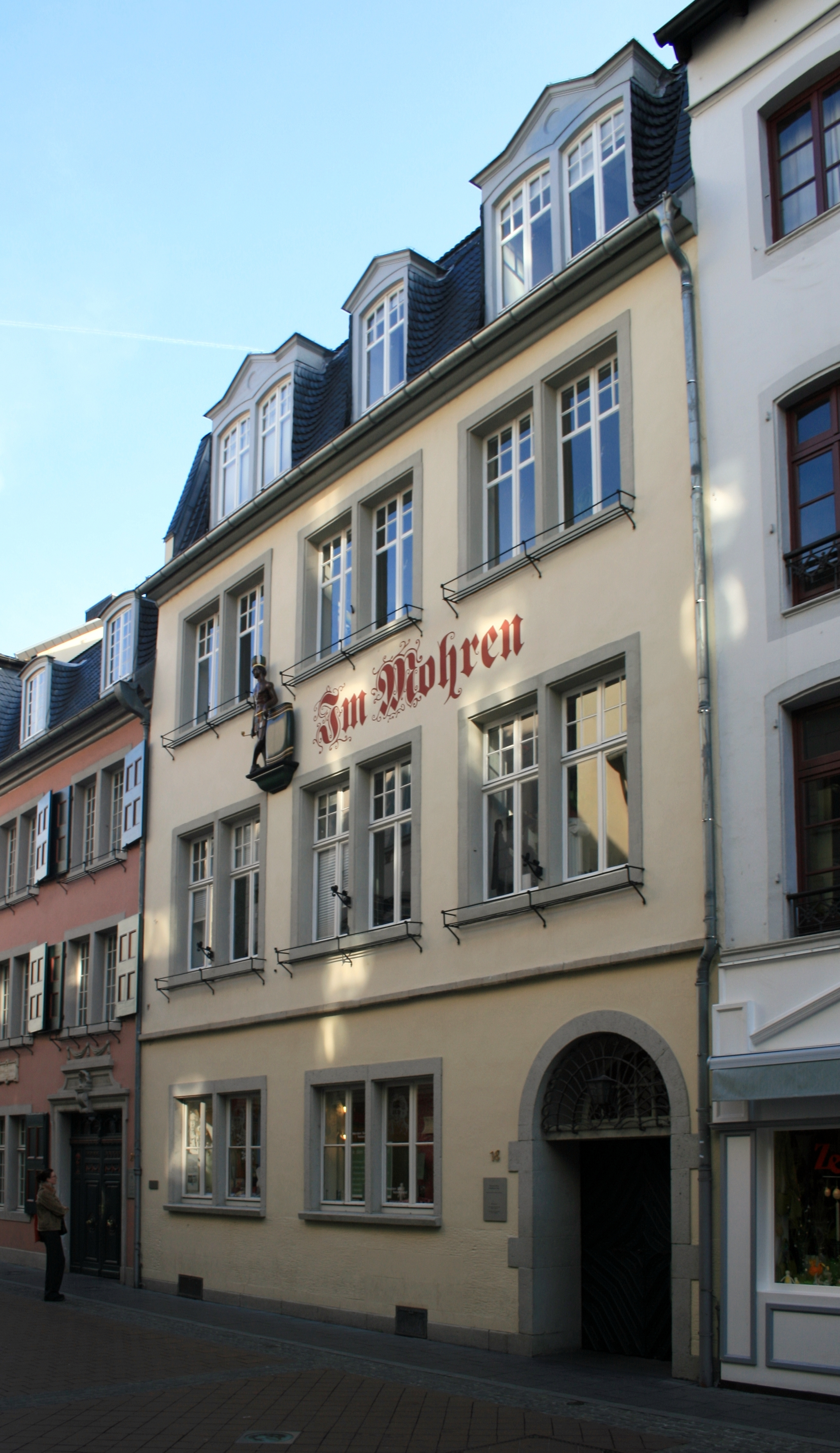 Museum "Beethovenhaus" (former "Haus Im Mohren") next to House of birth Ludwig van Beethoven, Bonn/Germany, Bonngasse